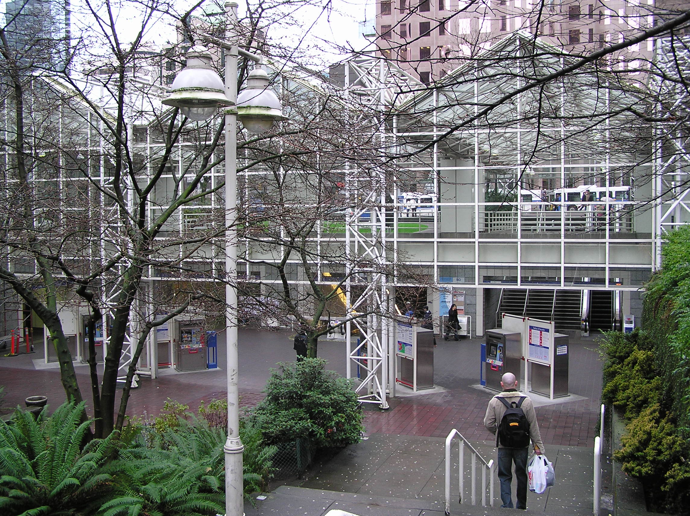 Burrard Station in Vancouver.